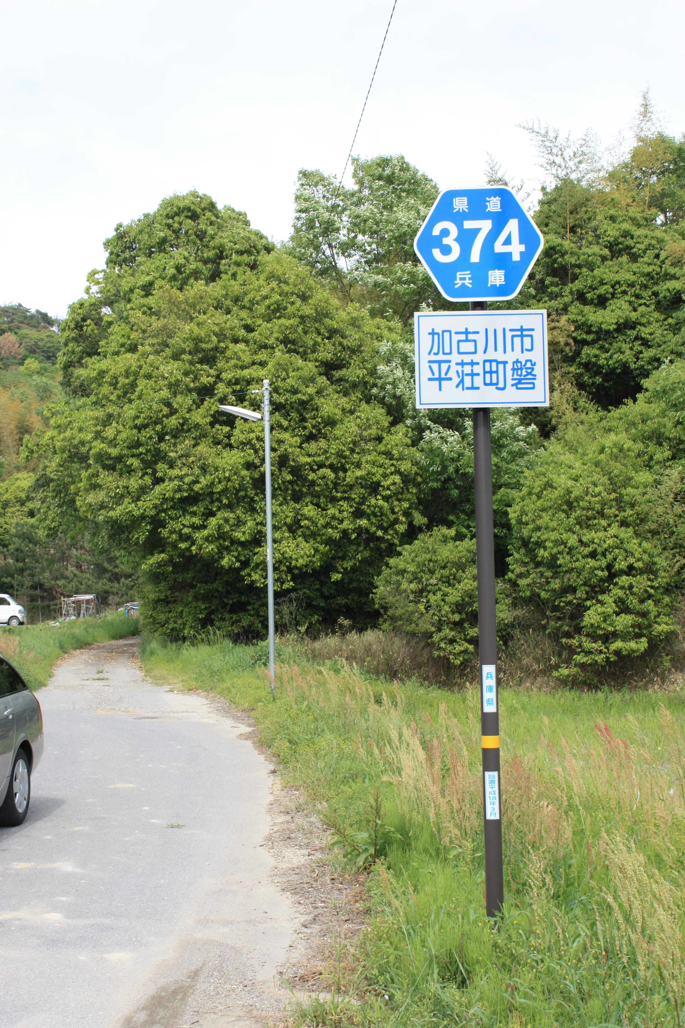 Hyogo prefectural road No.374